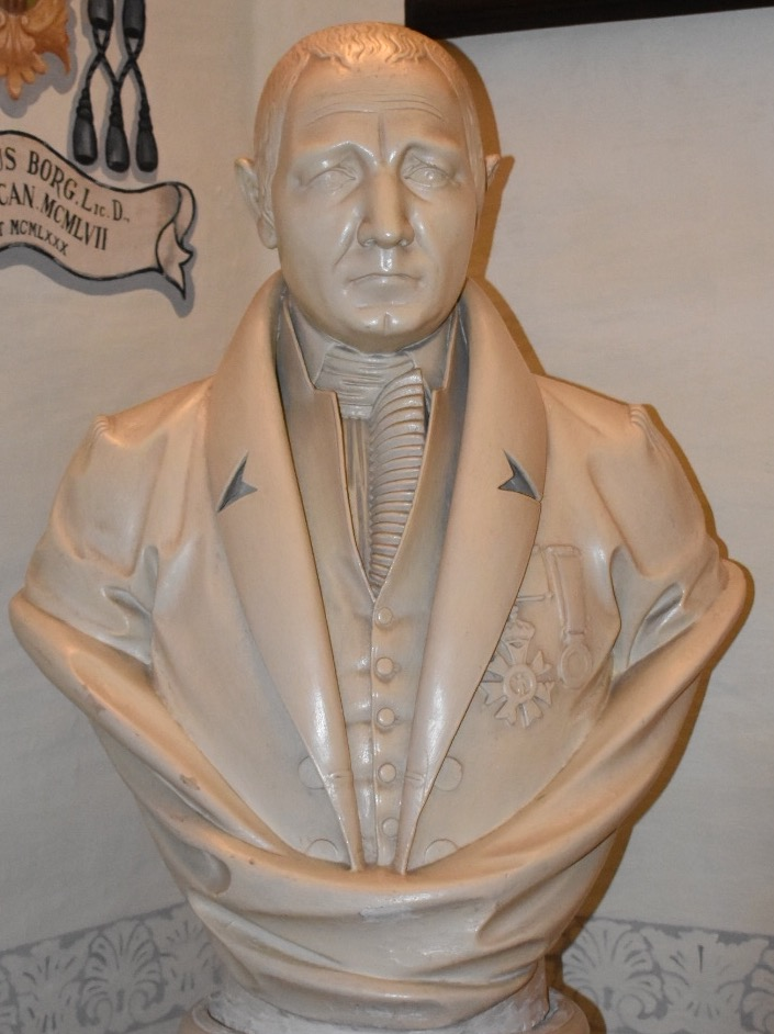 19th century bust of Vincenzo Borg, known as Brared, at the Museum of the Minor Basilica of St Helen Parish Church in Birkirkara.